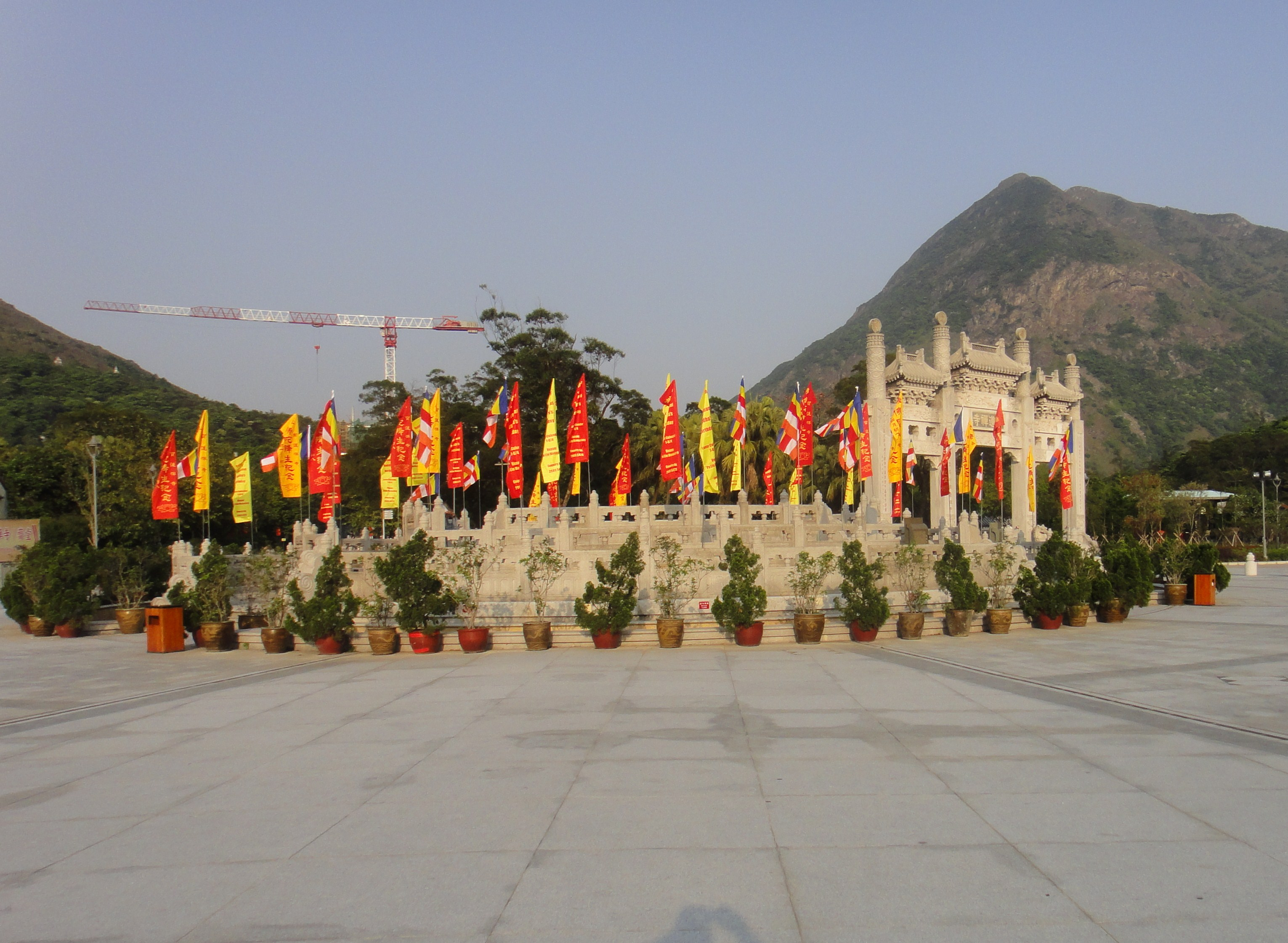 Tian Tan Buddha